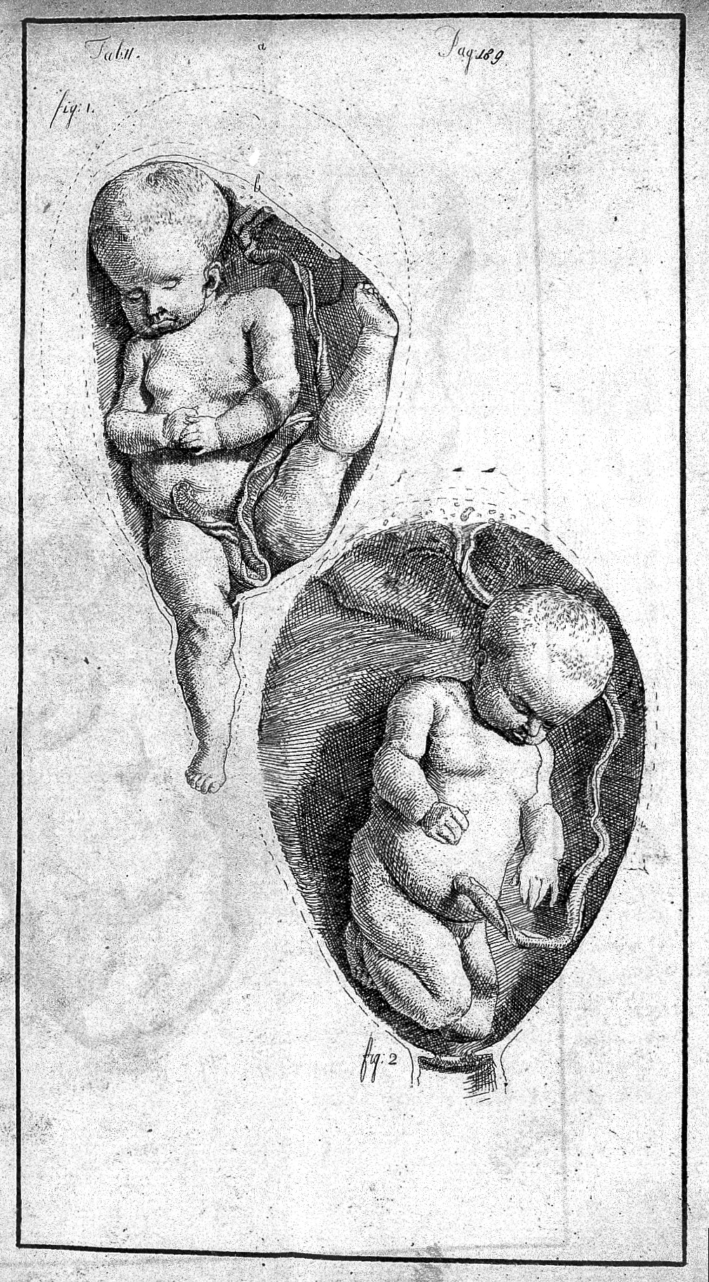 Child presenting one foot and Child offering with its knees for the birth. Illustrations by George Stubbs Rare Books Keywords: breech delivery; Midwifery; Obstetrics; John Burton